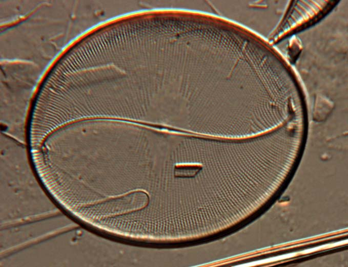 author: Ania Wachnicka source: personal collection